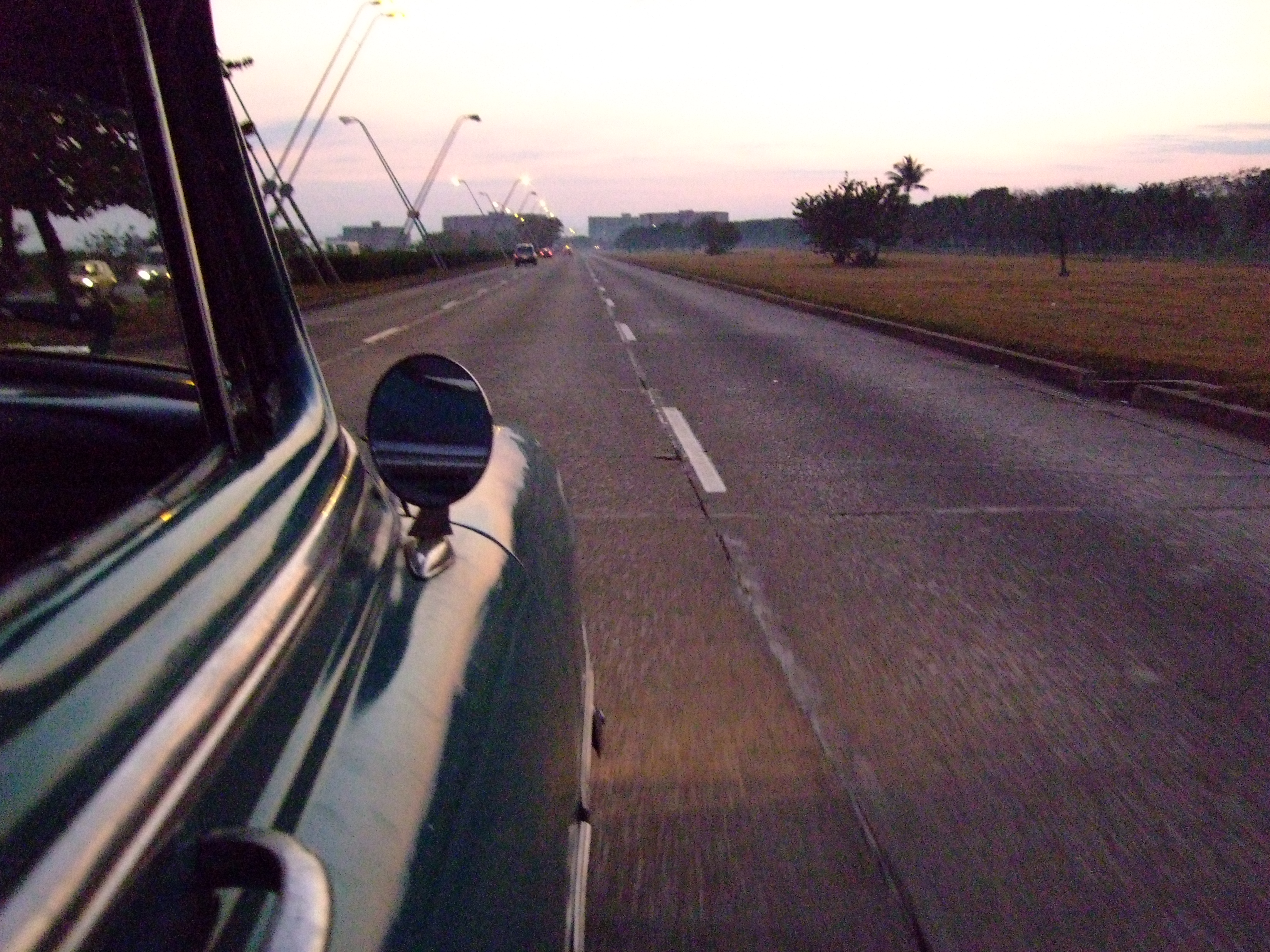 View from a máquina, a classic taxi, of the Autopista Nacional and the city centre of Havana in the background.